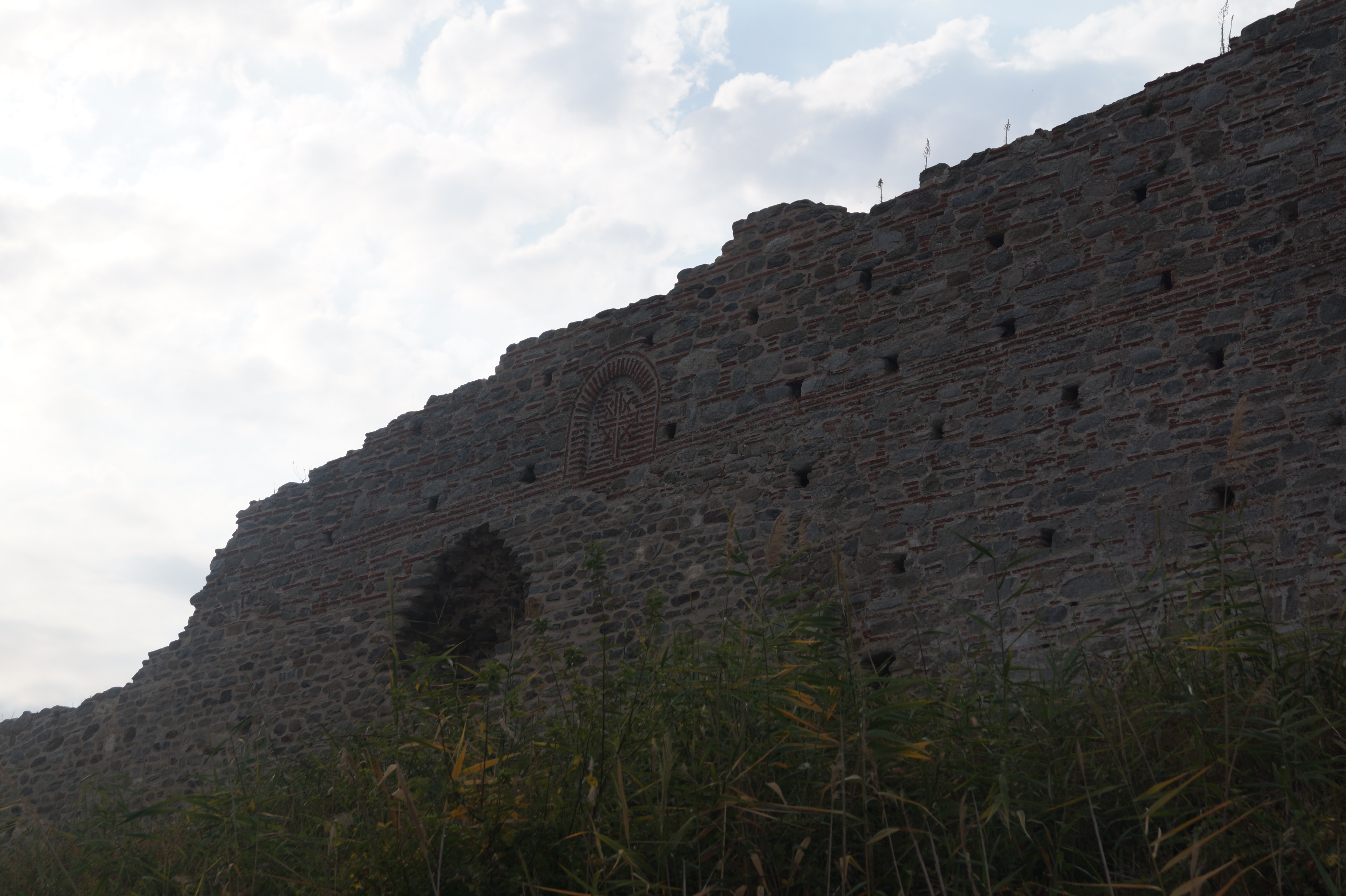 Nea Peramos, Makedonia, Greece: North wall of the castle of Anaktoropolis.